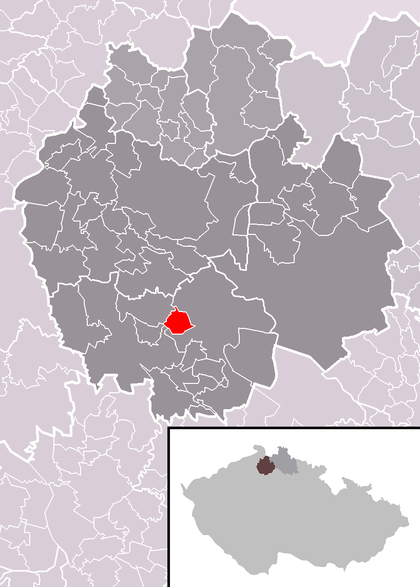 Location of Skalka u Doks municipality within Česká Lípa District and administrative area of Česká Lípa as a Municipality with Extended Competence.